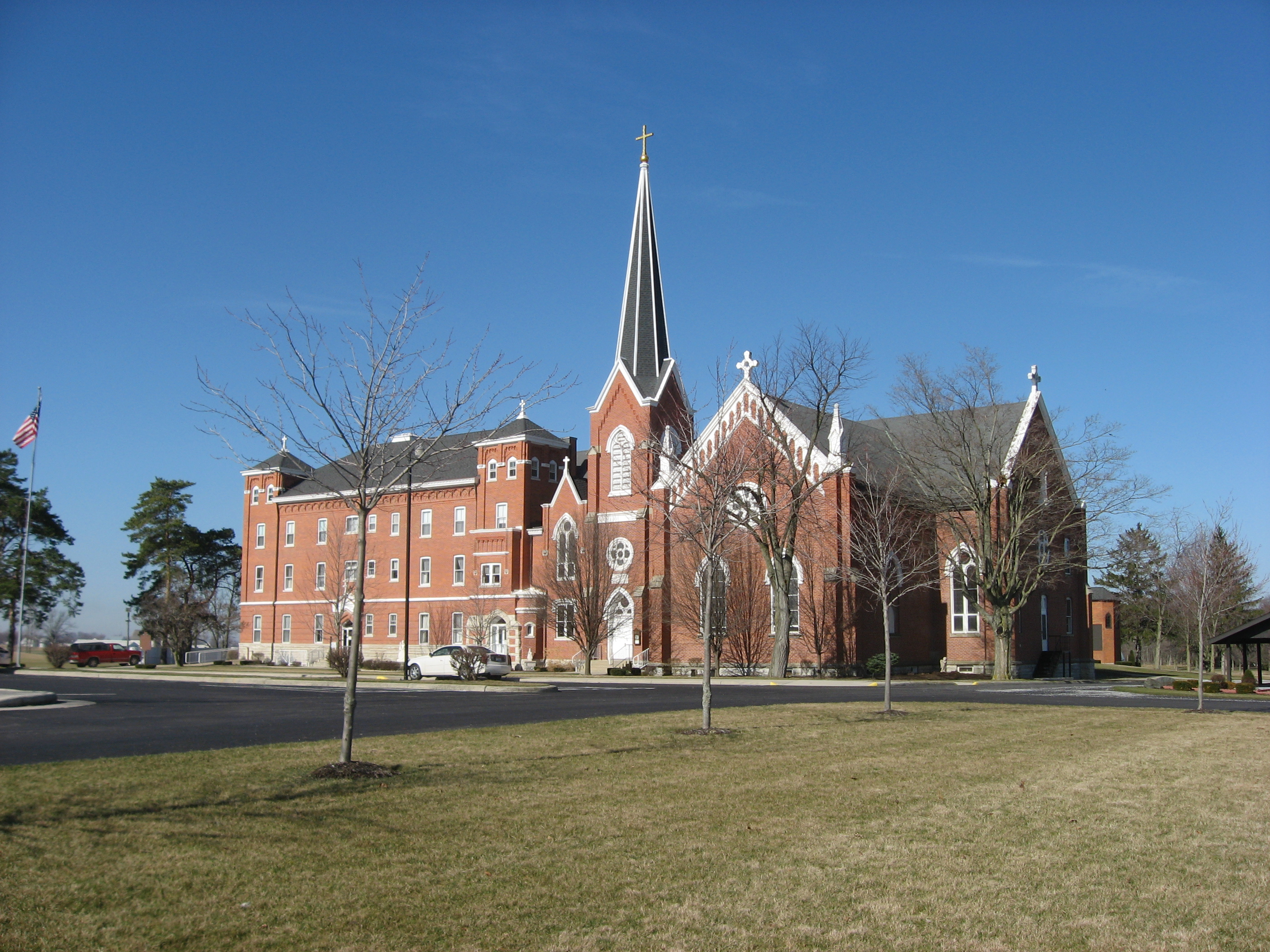 Looking along the main driveway of the Maria Stein Convent, located on the western side of St. Johns Road slightly north of Maria Stein, an unincorporated community in Marion Township, Mercer County, Ohio, United States. Built in 1846, the convent complex (also known as the Shrine of the Holy Relics) has been added to the National Register of Historic Places as a part of the Cross-Tipped Churches of Ohio Thematic Resources.